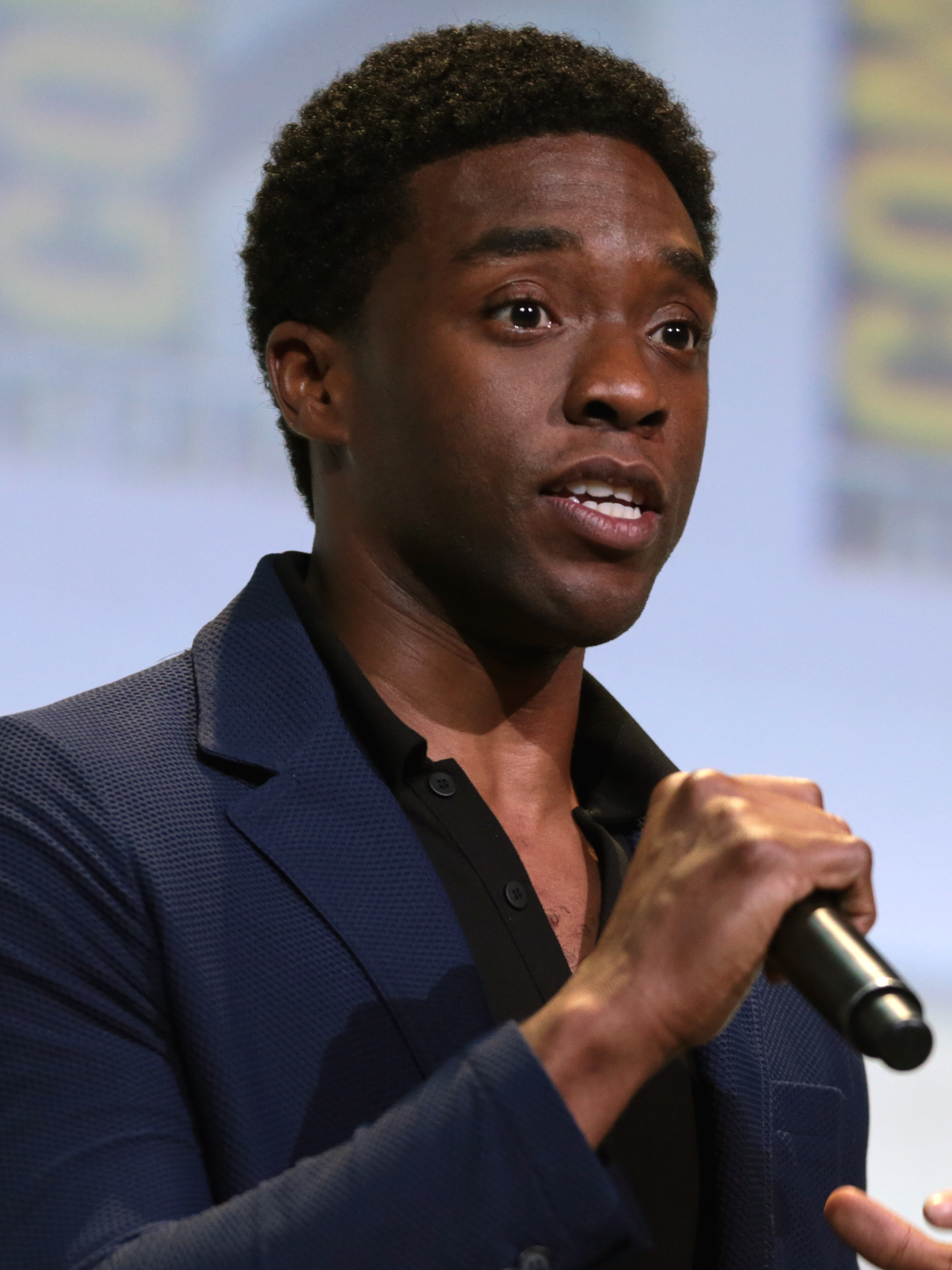 Chadwick Boseman speaking at the 2016 San Diego Comic Con International, for "Black Panther", at the San Diego Convention Center in San Diego, California.